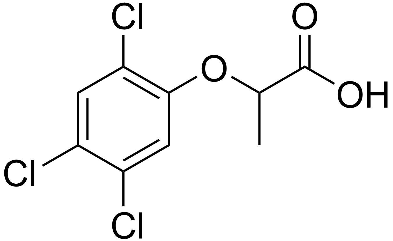 chemical structure of fenoprop